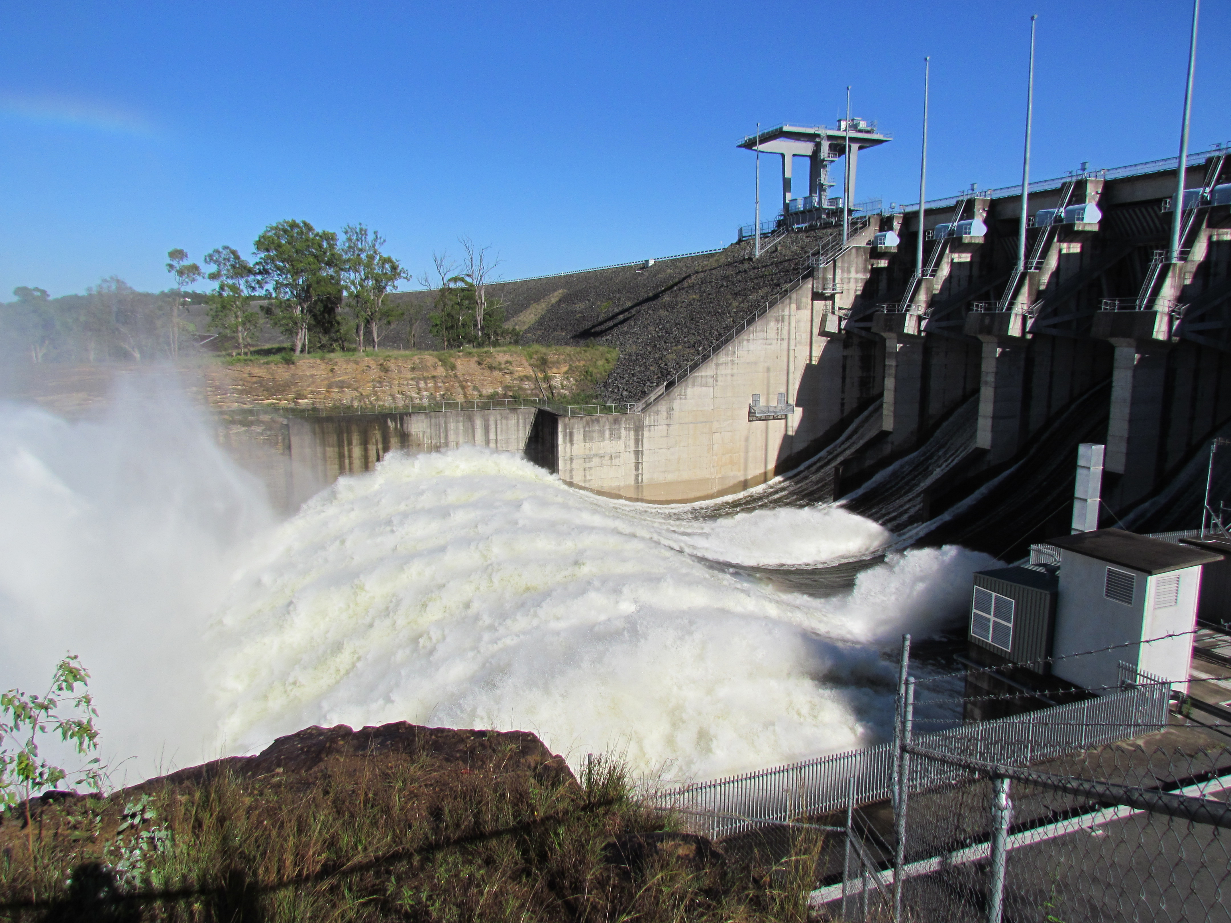 Wivenhoe Dam Flood release 2010